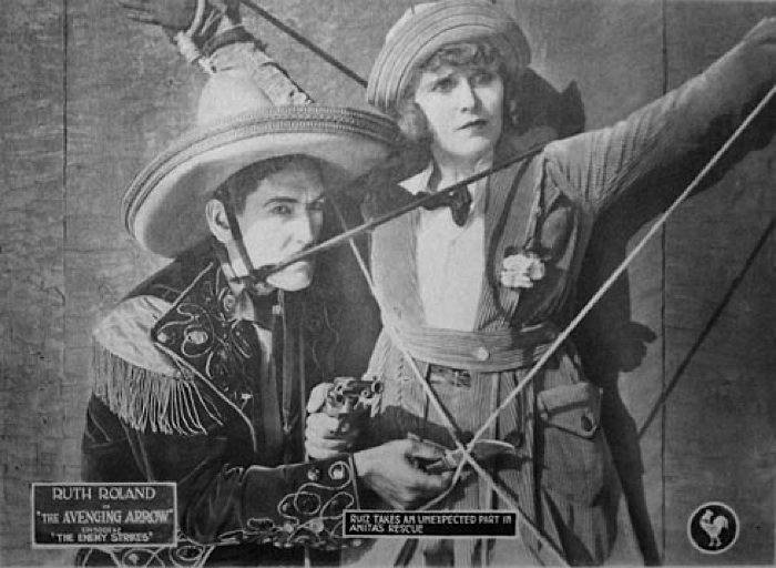 The Avenging Arrow is a 1921 American western film serial directed by William Bowman and W. S. Van Dyke. This is a lobby card.